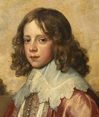 Fragment of a painting by Antoon van Dijck, 1641